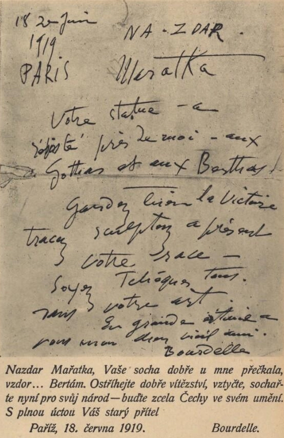 Letter from Antoine Bourdell to Josef Mařatka